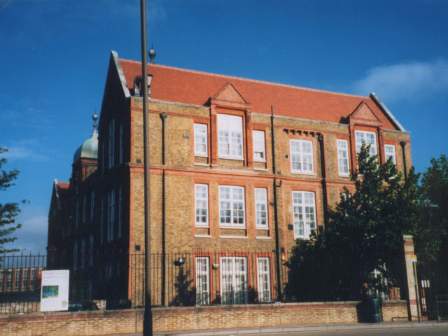 Windrush Primary School, Woolwich Road, Woolwich, SE London, UK. Formerly Maryon Park School, until 2005 Holborn College, from 2005-2015 Kaplan Holborn College. Now Windrush Primary School. Built in 1894-96, extended in 1909–10 and in 1914-15.